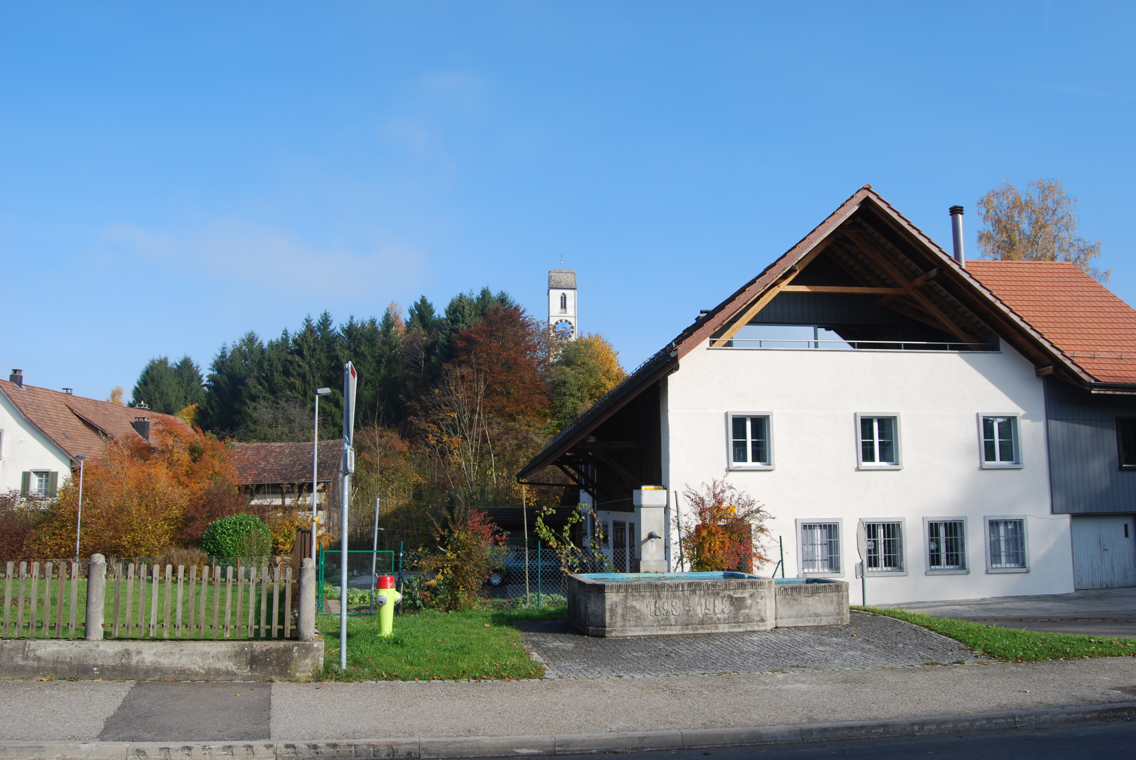 Church of Ellikon an der Thur, canton of Zürich, SwitzerlandEsperanto: Preĝejo de Ellikon ĉe Turo, Kantono Zuriko, Svislando